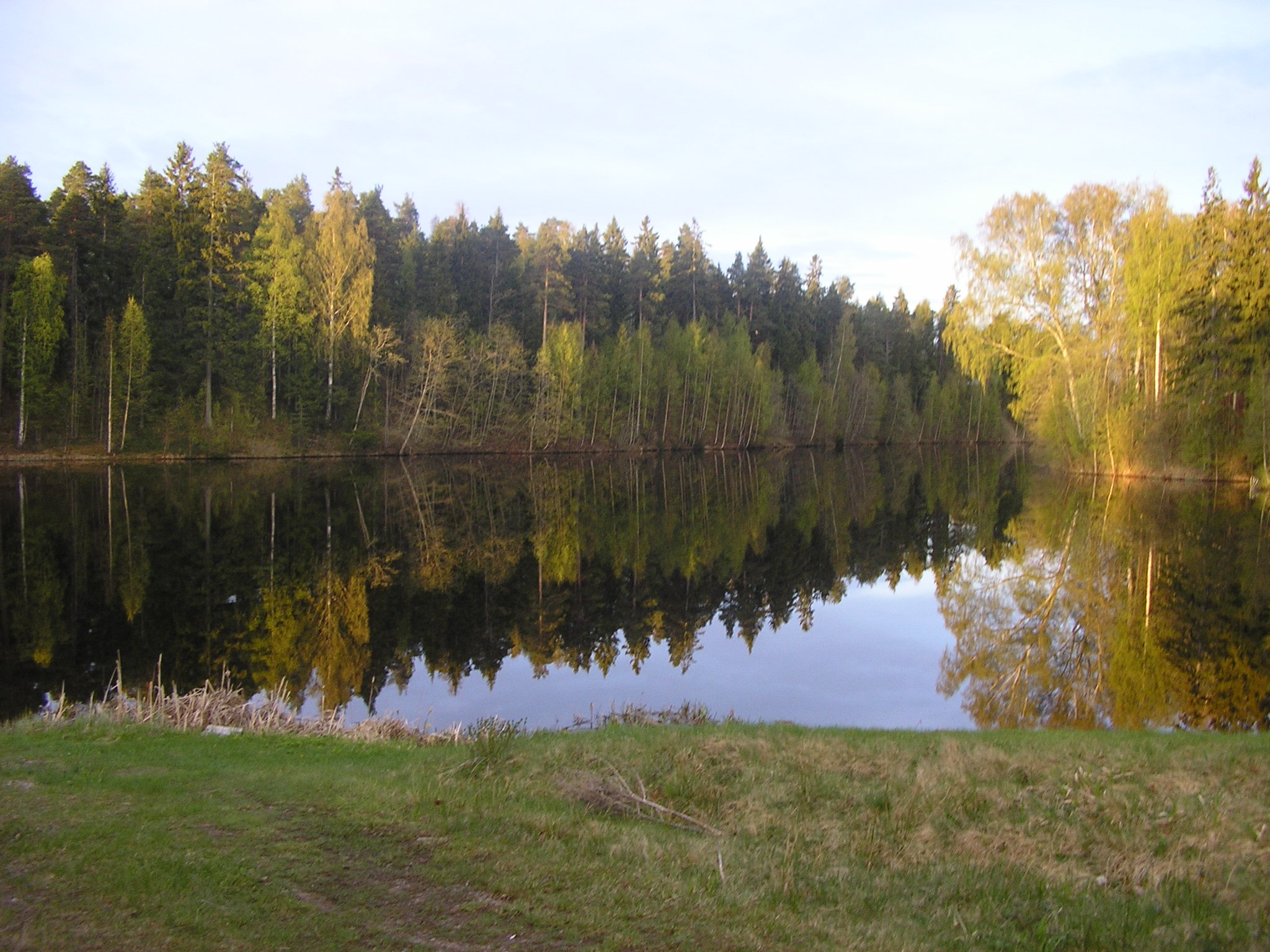 Gavean, Hagastrom